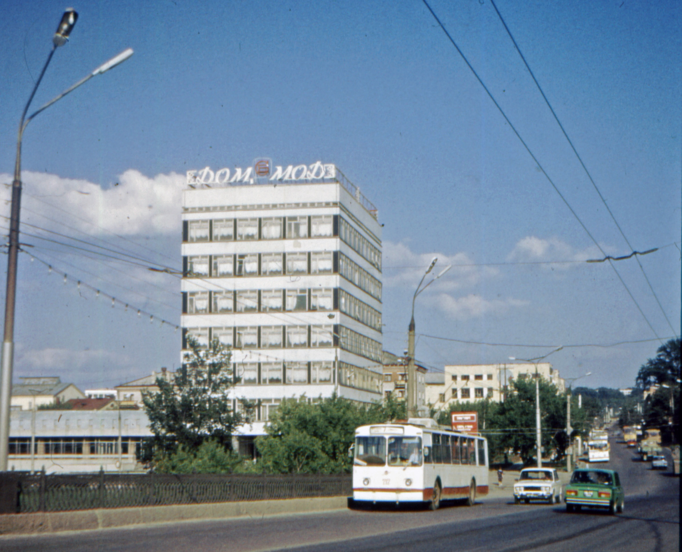 Cheboksary. View from Moskovsky Bridge to Fashion House